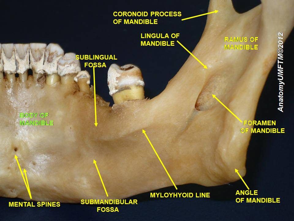 Anatomical dissections